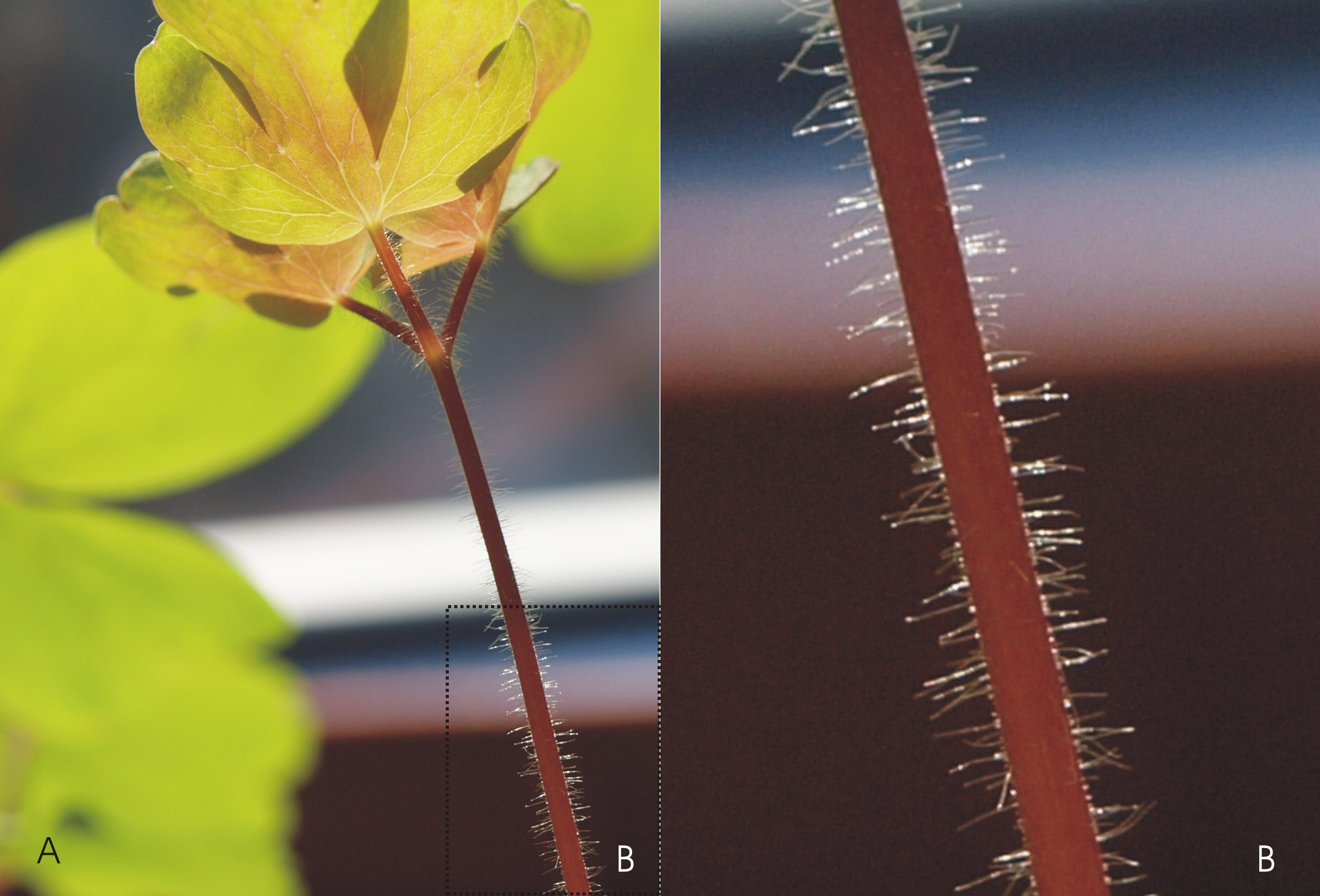 hair on leaf of Aqilegia grata Maly ex Zimmeter glandular pilose type